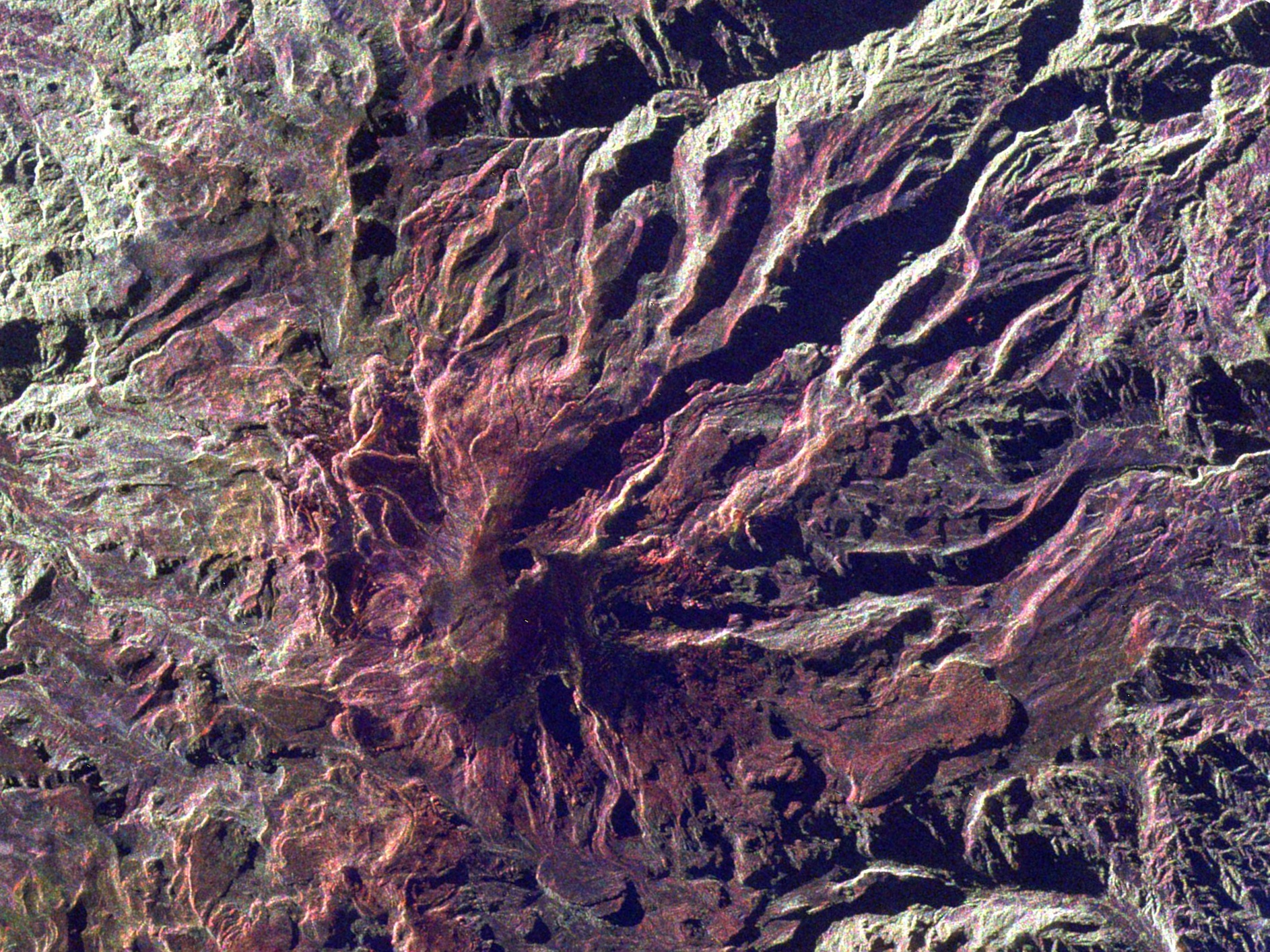 Radar image of Colombia's Nevado del Ruiz volcano from space. Arenas crater, which is 1 kilometre wide and 240 metre deep, is visible near the peak. An eruption from this crater in 1985 triggered lahars that killed 25,000 people. See File:Ruiz volcano.jpg for full description. North is towards the top.